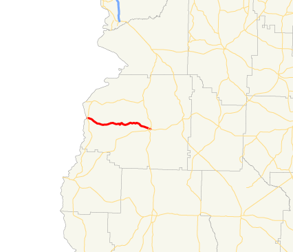 Map of Georgia State Route 39 Connector